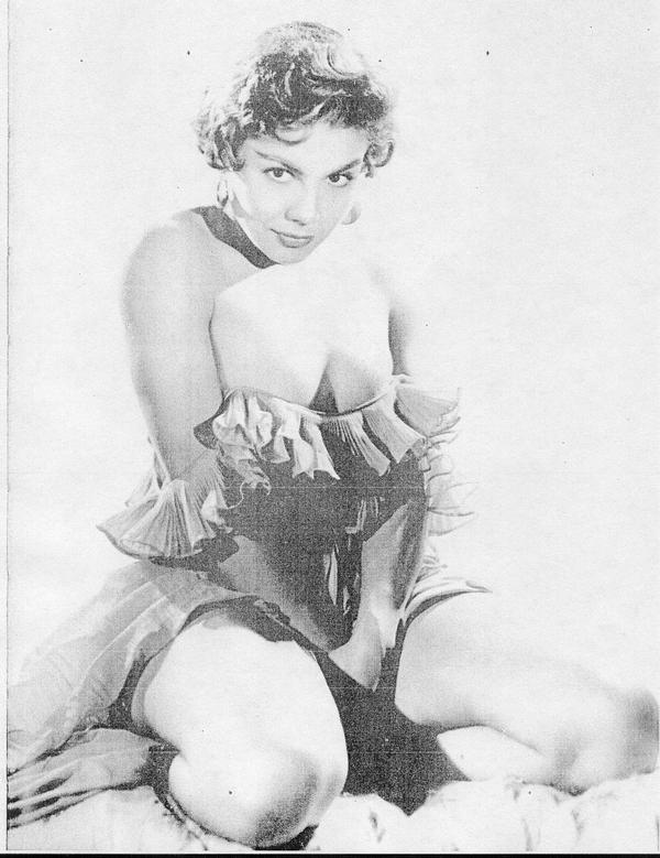 Mexican actress Lilia Prado (1928 – 2006).